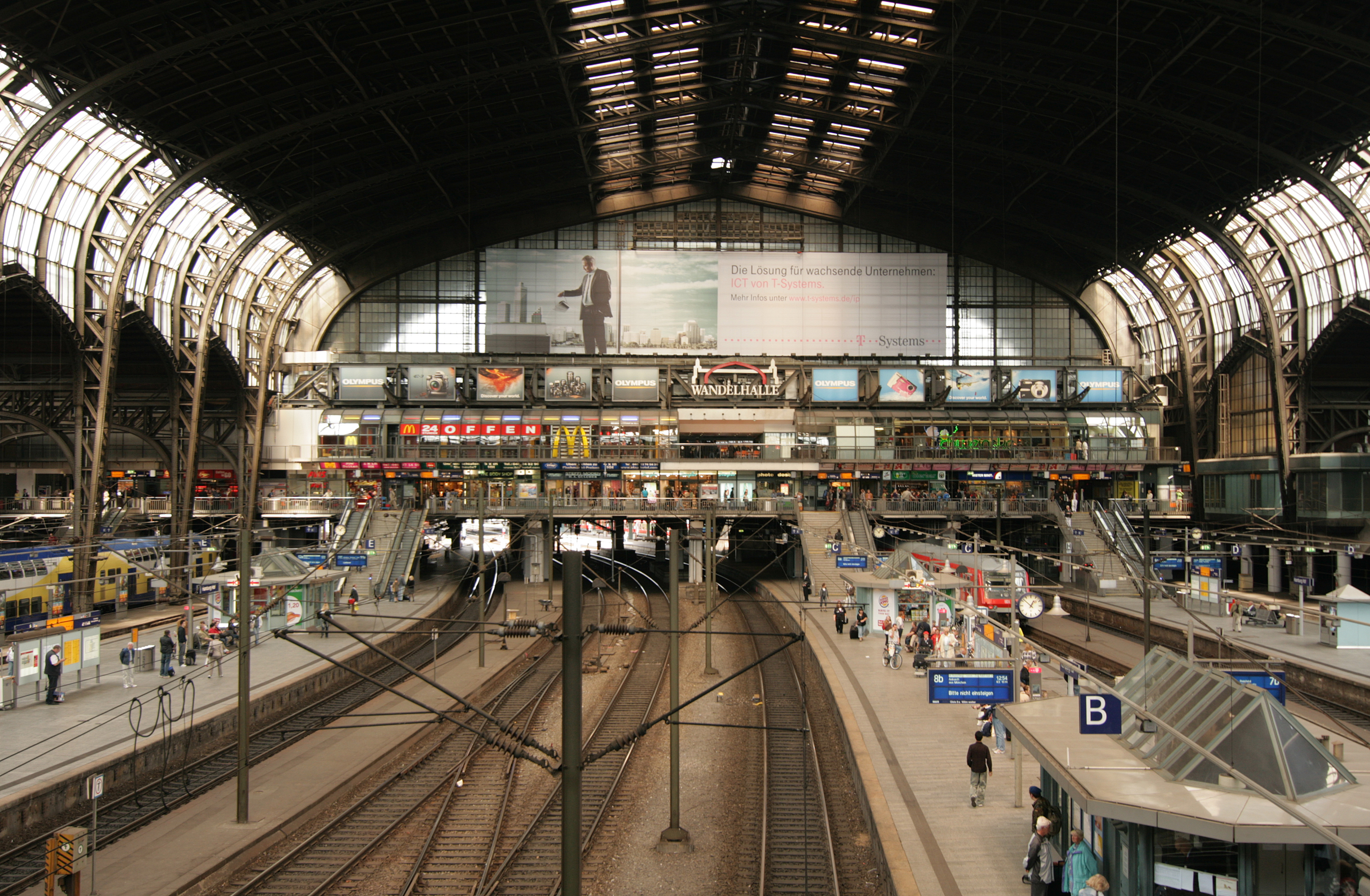 Hamburg Hauptbahnhof, main hall.